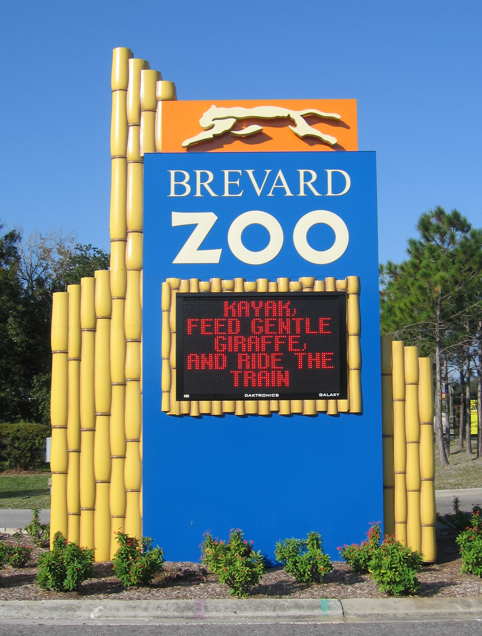 Brevard Zoo monument sign located at road entrance to museum on Murrell Road at intersection with Wickham Road, Melbourne, Florida, United States.